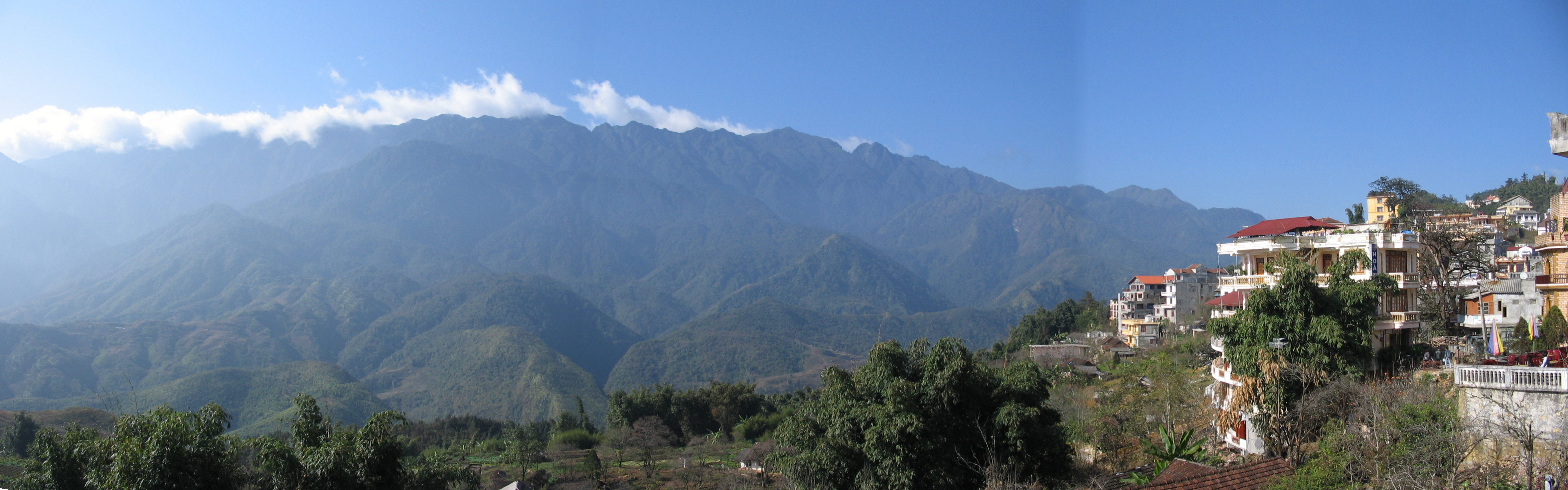 Panorama of Sapa in Northern Vietnam